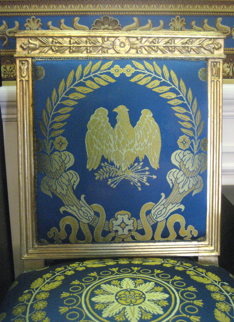 Silk lampas fabric for chairs in the White House Blue Room. Lampas woven by Scalamandré Silks.